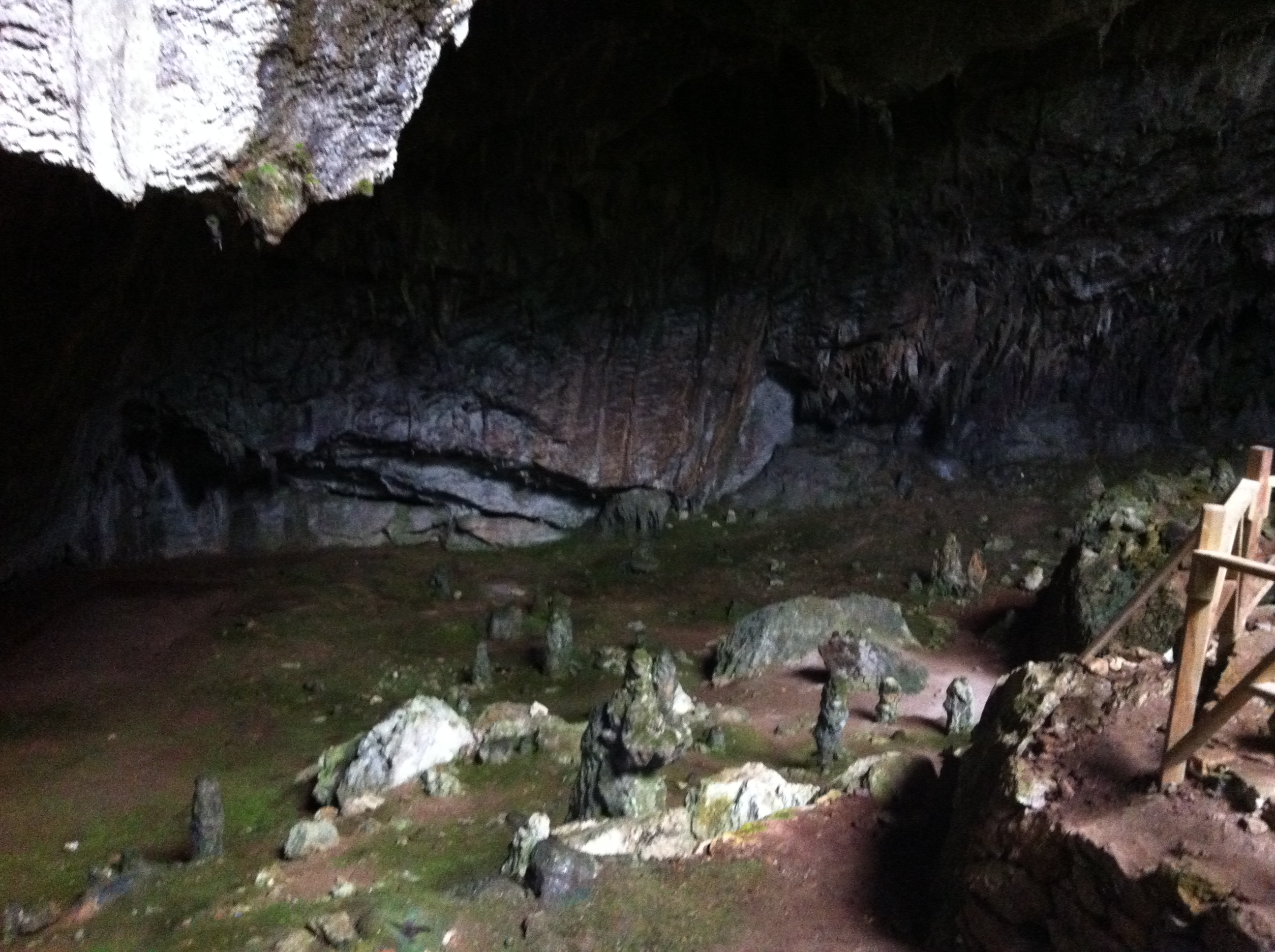 Nimara Cave, on Nimara Peninsula, near Marmaris, Turkey